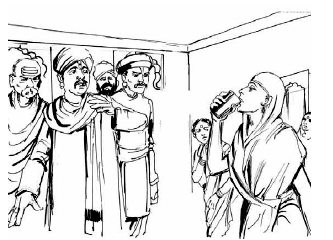 Vena swami